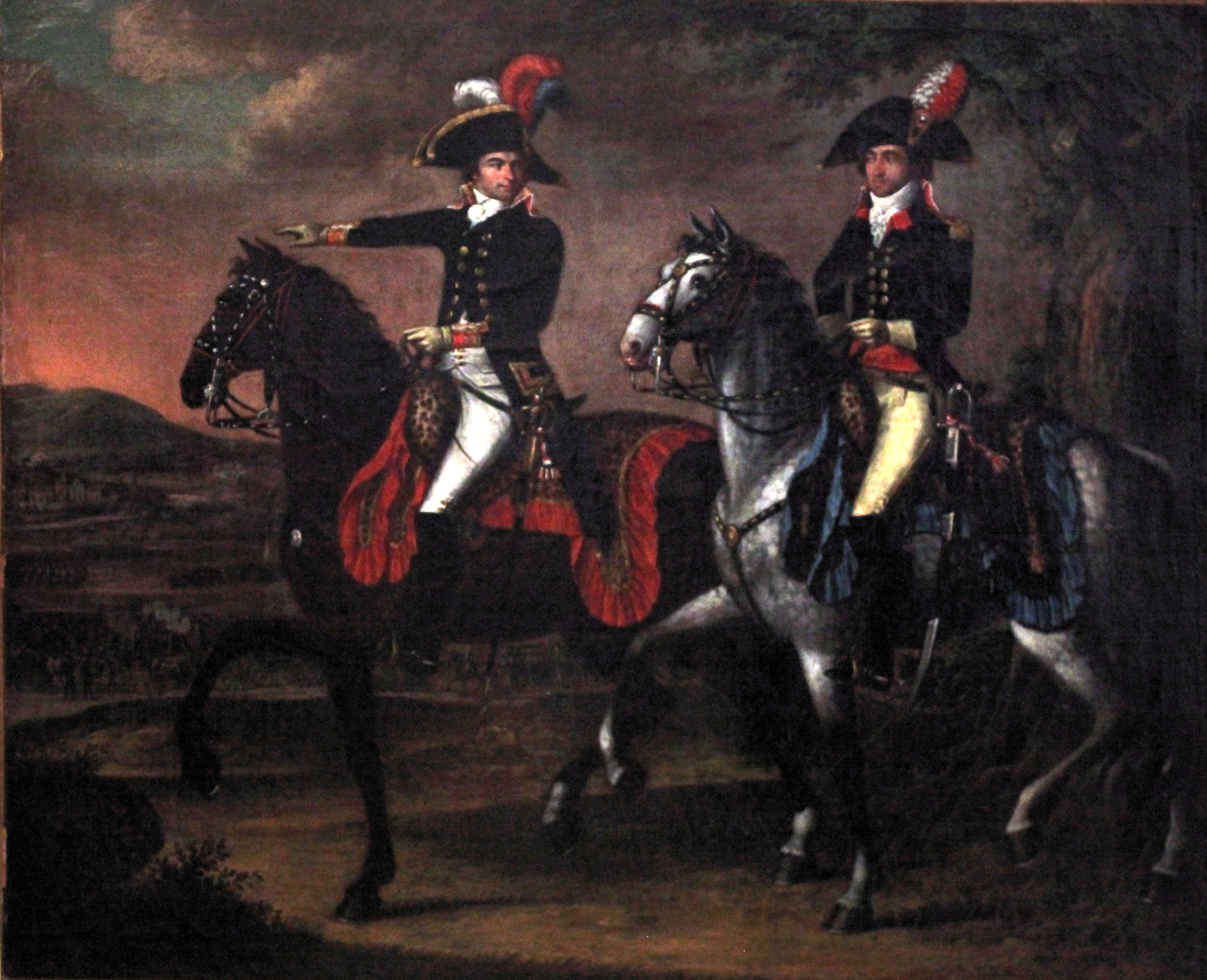 Portrait of general Jean-Baptiste Jourdan and his aid. Purchased in 1990 with the support of the State and the Région Rhône-Alpes.